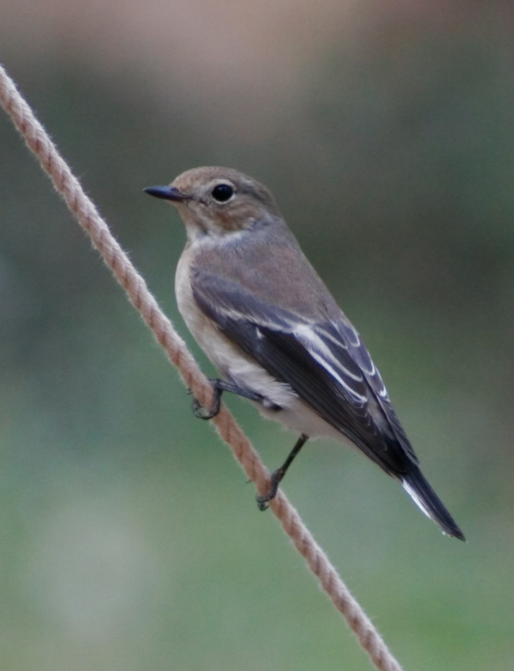 Pied Flycatcher (adult male, autumn plumage) in Nuevalos, Spain at camping site.